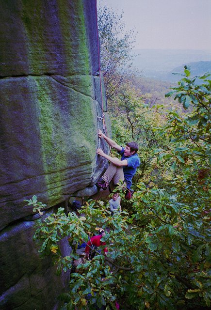 Gardoms Edge Rising above birch woods, a rather fearsome gritstone Edge. Green streaks are algae growing in a streak of water seepage. Route is Eye of Faith.